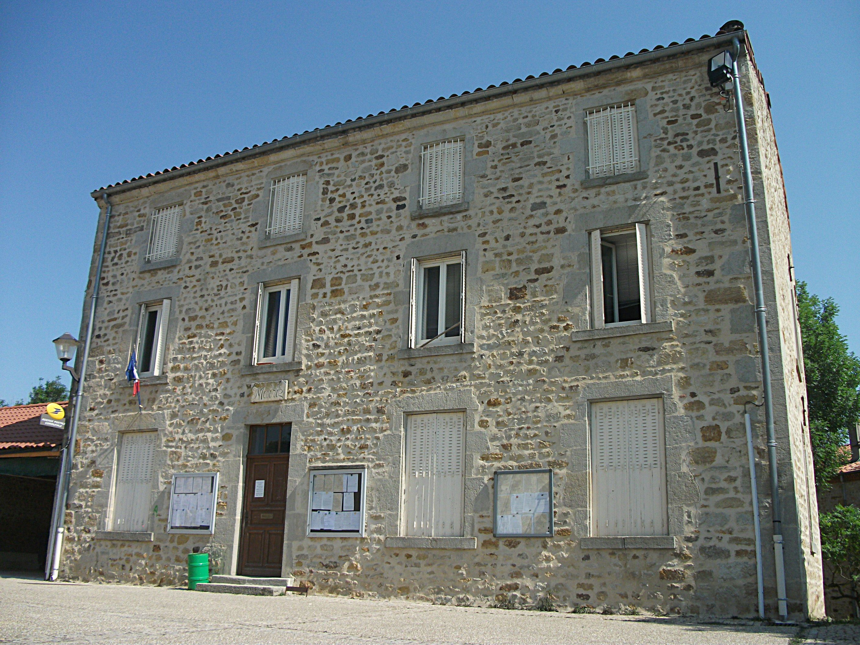 Town hall of Égliseneuve-près-Billom, Puy-de-Dôme, Auvergne-Rhône-Alpes, France. [14718]